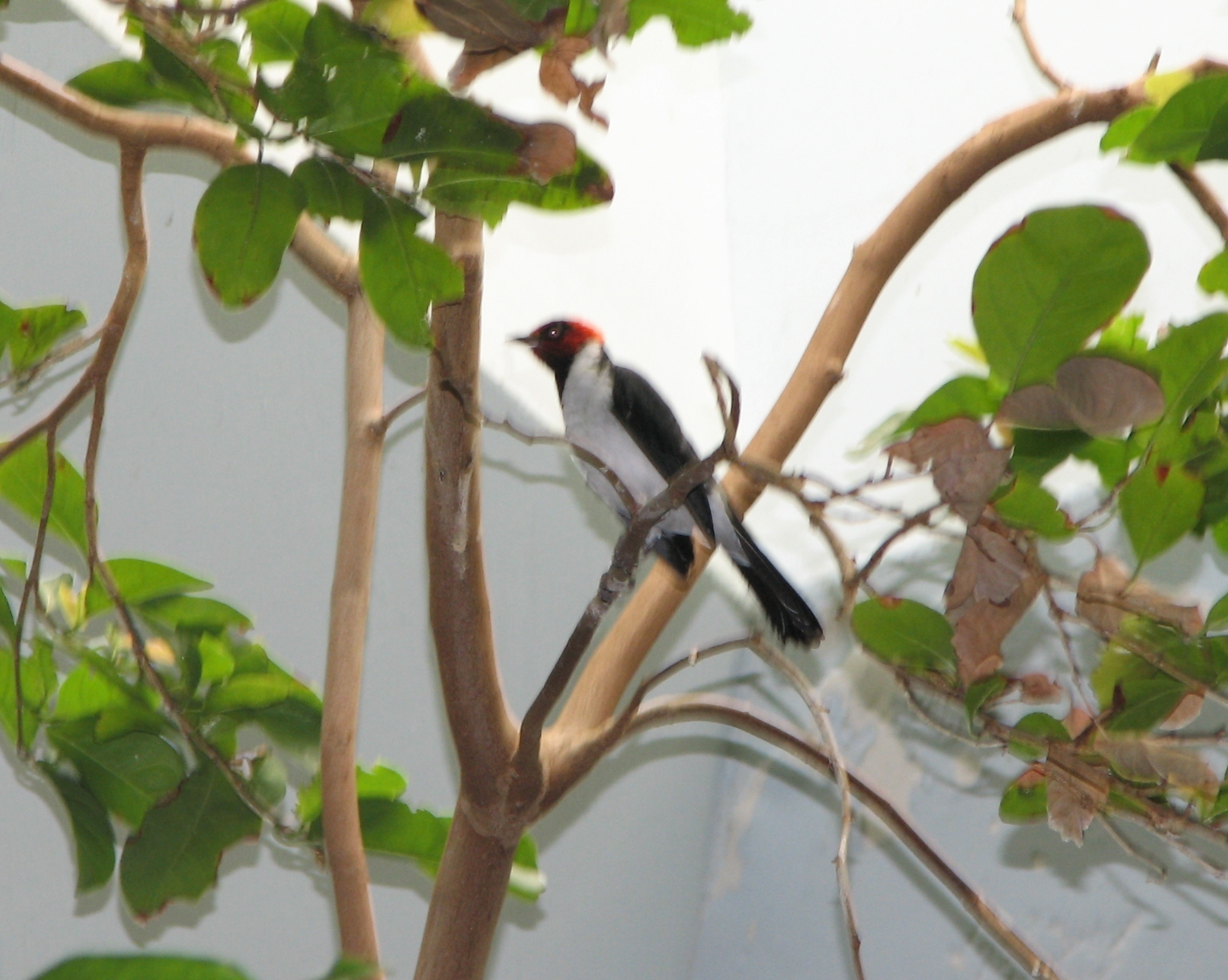 Red-capped Cardinal